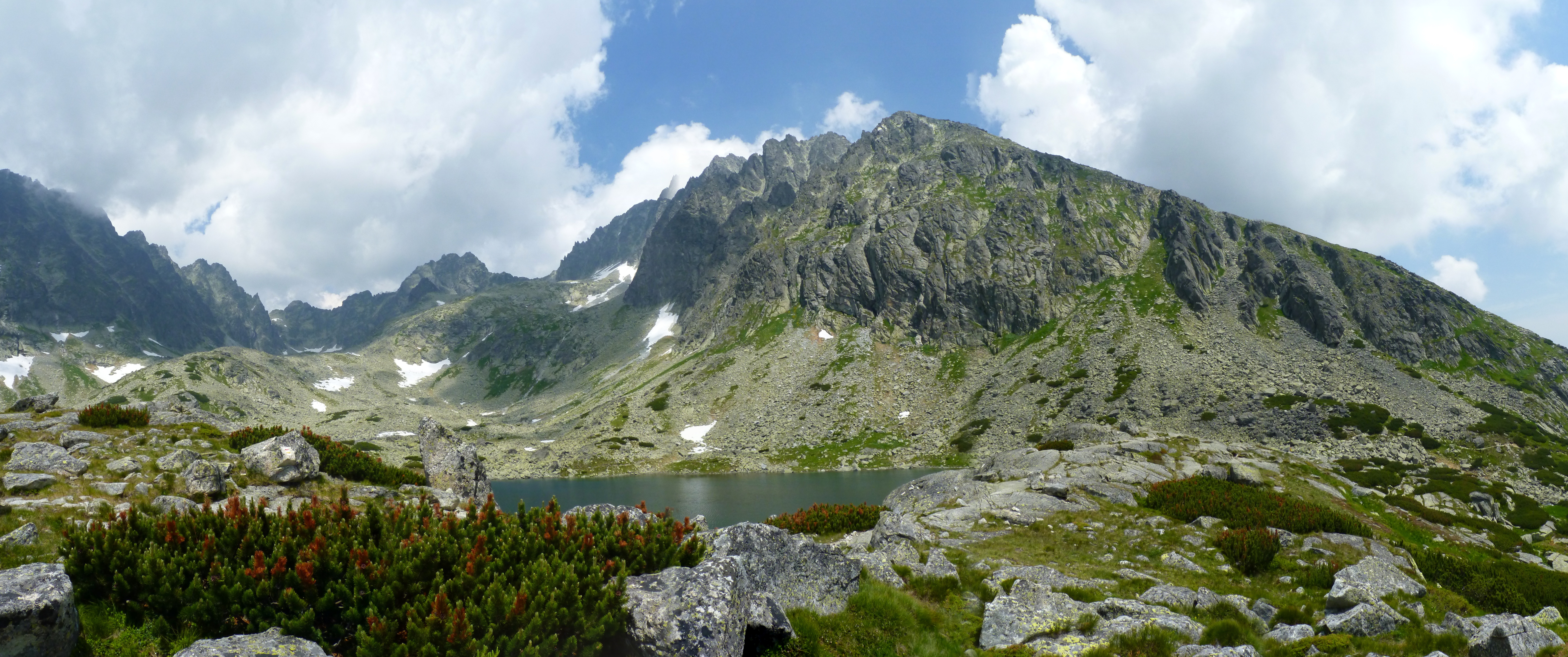 Batizovská dolina (Batizov Valley), High Tatras, Slovakia